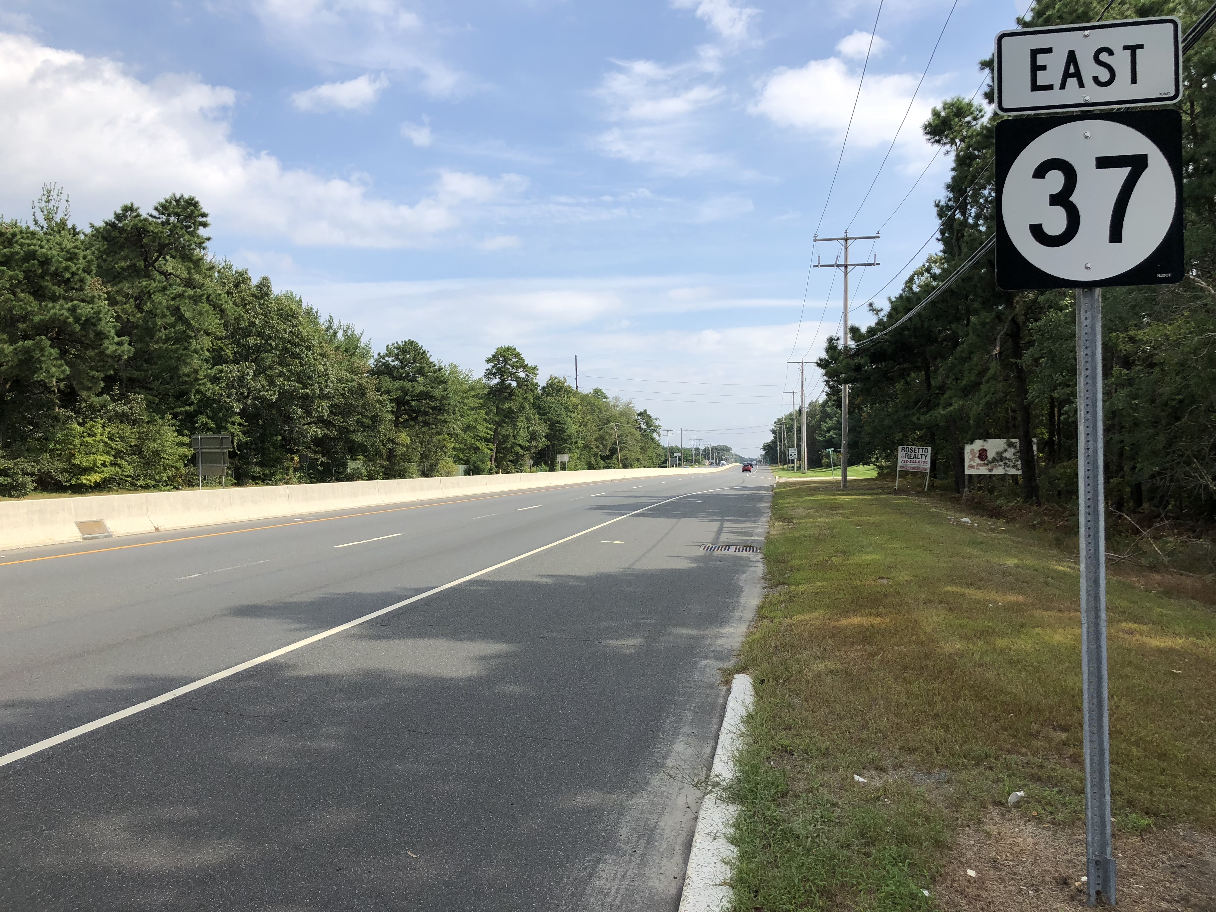 View east along New Jersey State Route 37 (Lakehurst Road) just east of Bone Hill Road and Buckingham Drive in Manchester Township, Ocean County, New Jersey